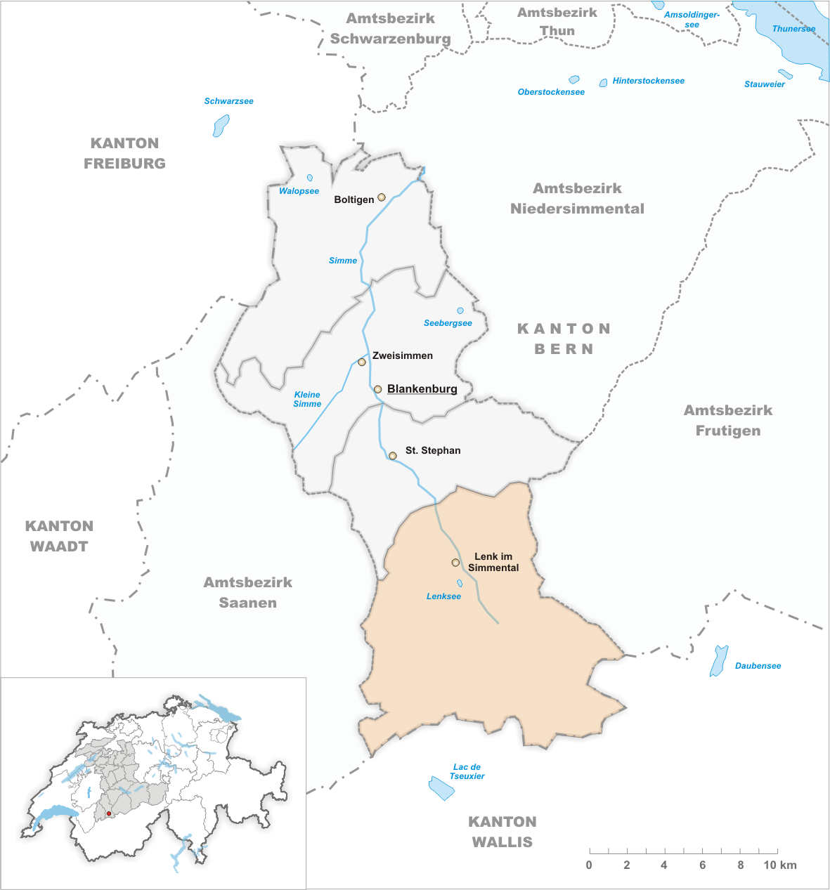 Municipality Lenk im Simmental